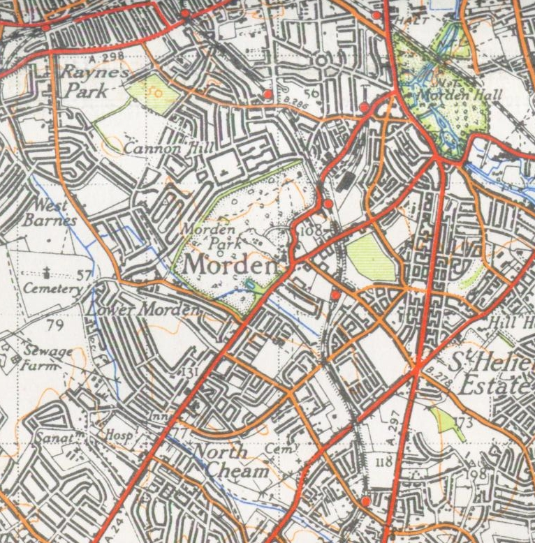 OS map of Morden from 1944 1 inch to the mile